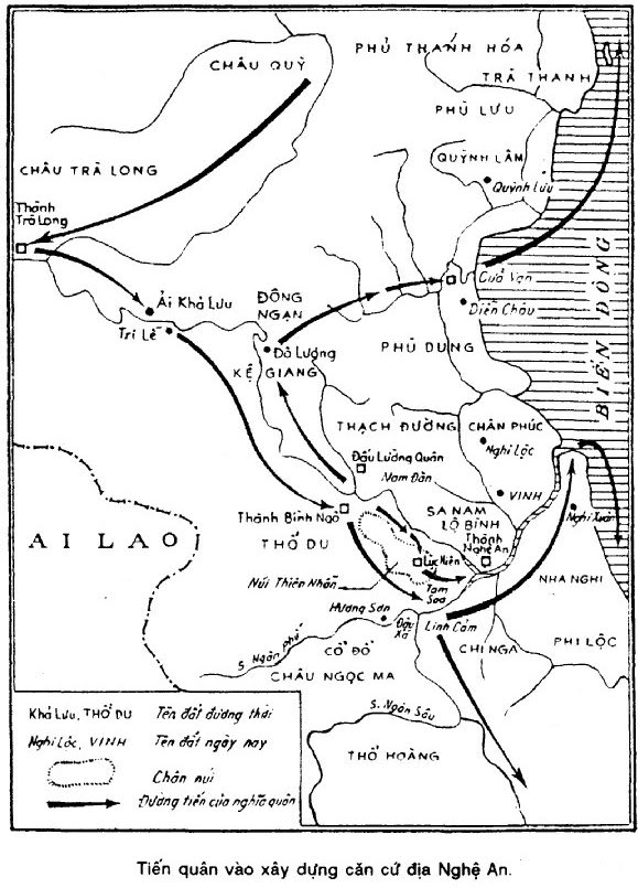 Tien quan vao Nghe An